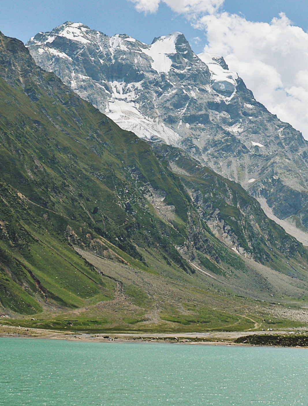 saif ul muluk and malika parbaat